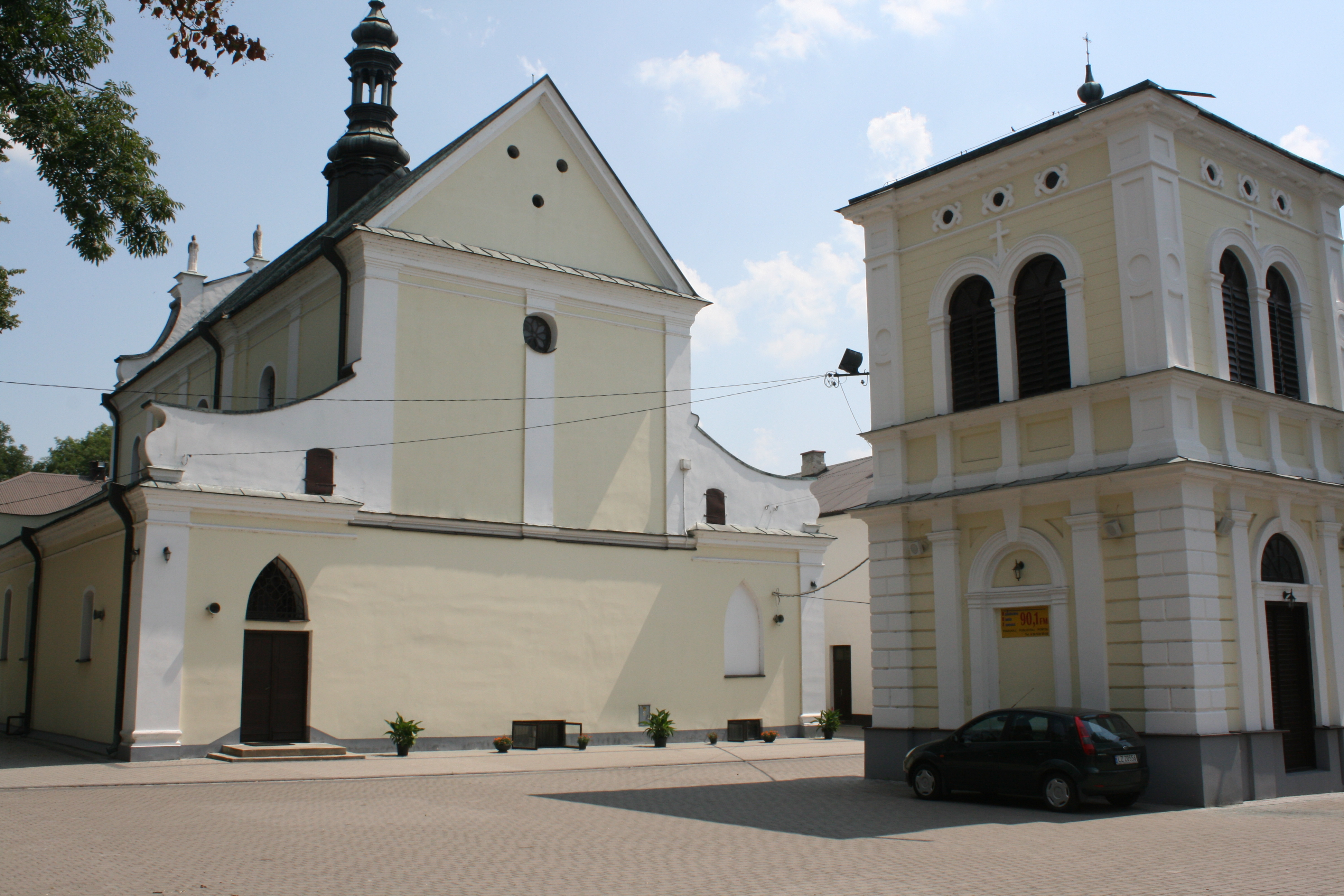 Roman Catholic church of Saint Nicholas in Hrubieszów, Poland